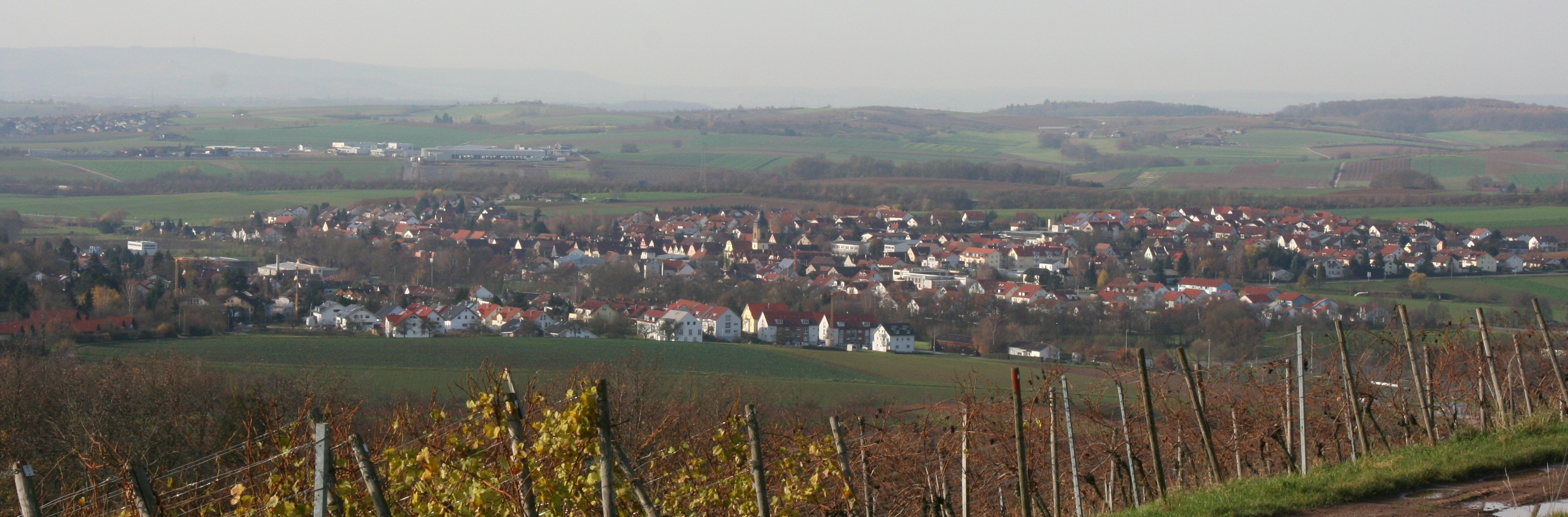 Abstatt as seen from below Wildeck castle